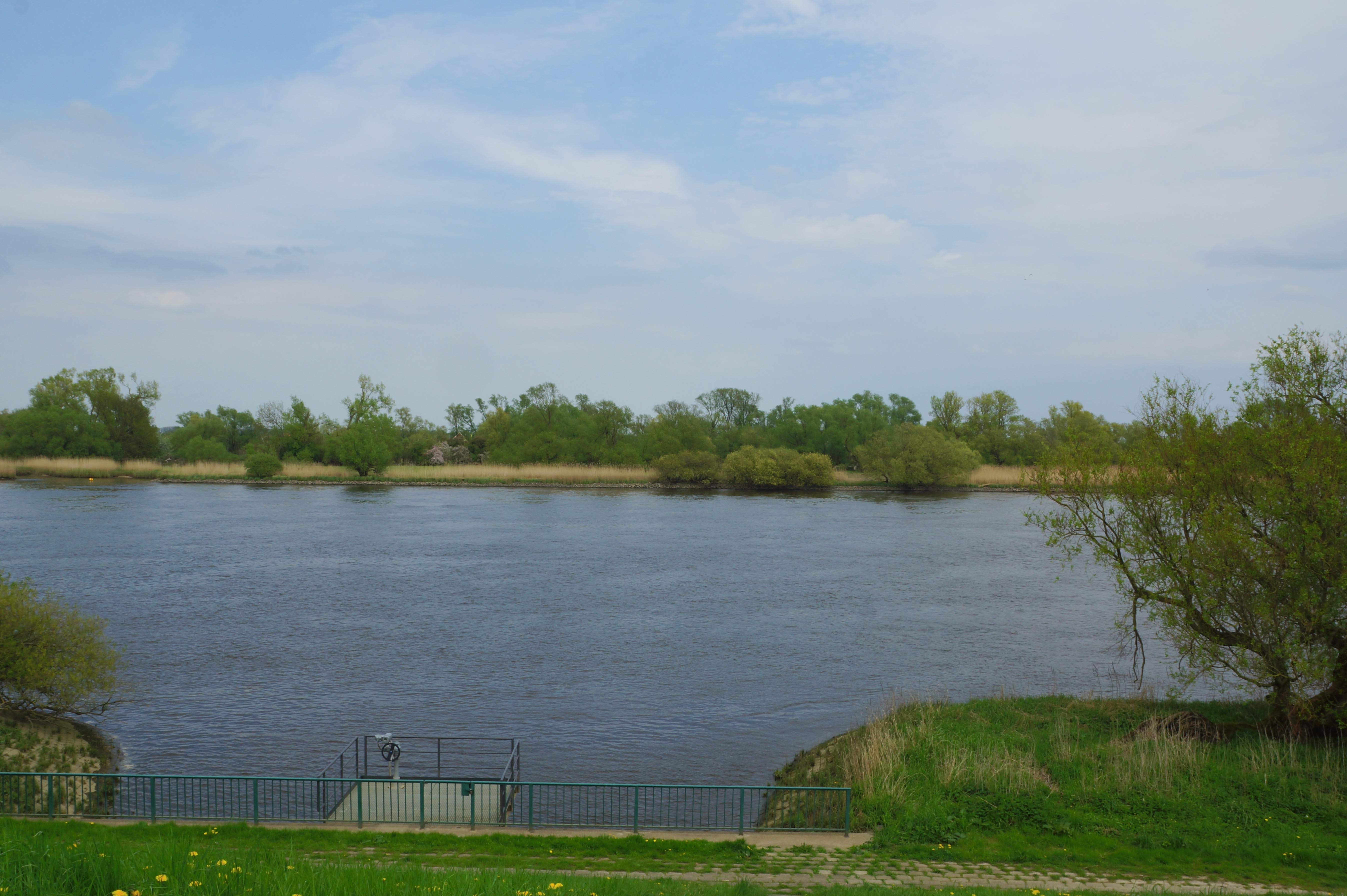 Hamburg (Neuland), Germany: Mouth of the Verbindungsgraben Canal in the river Elbe